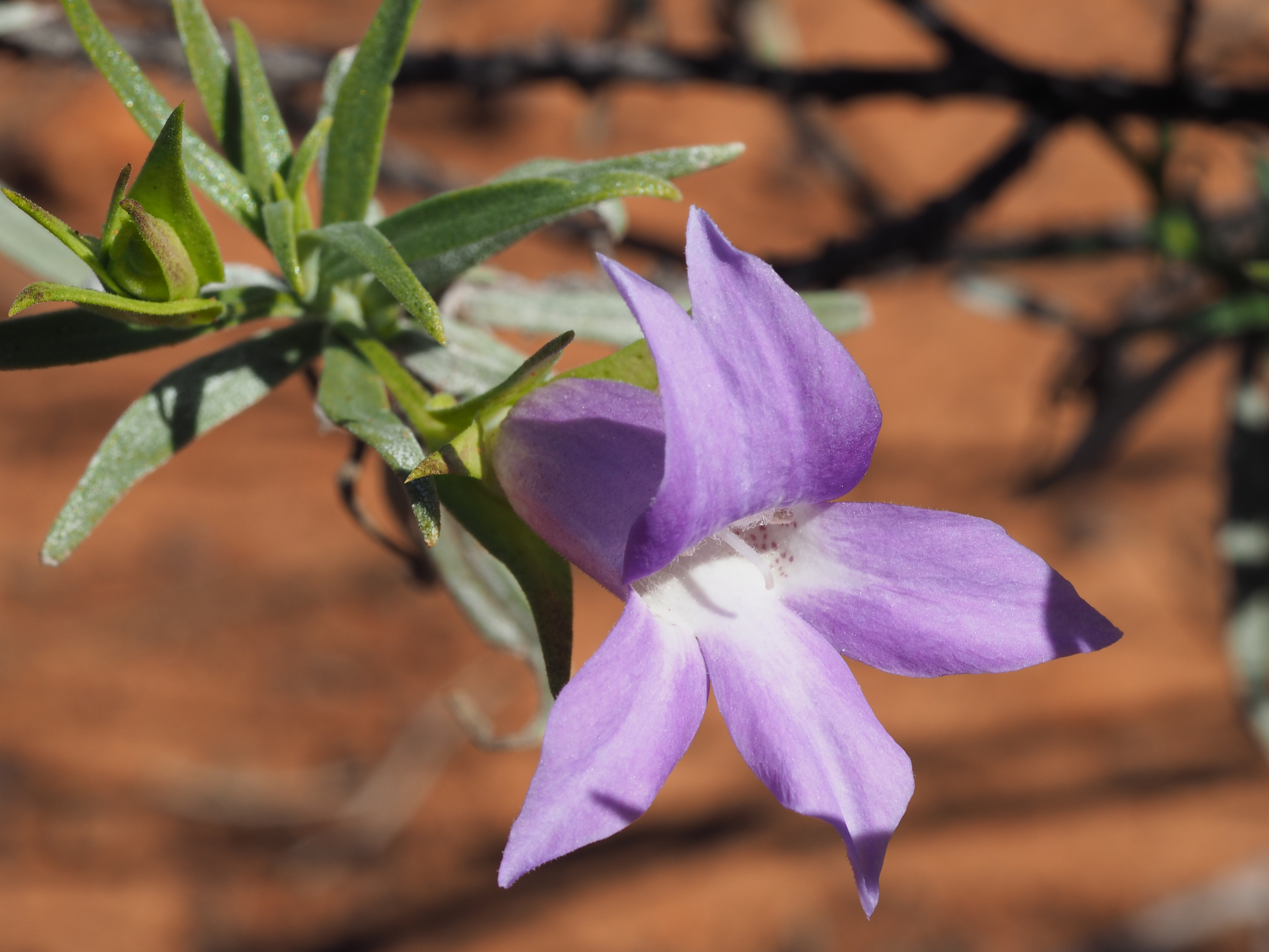 Eremophila spectabilis brevis growing 16.3 west along Neds Creek Road